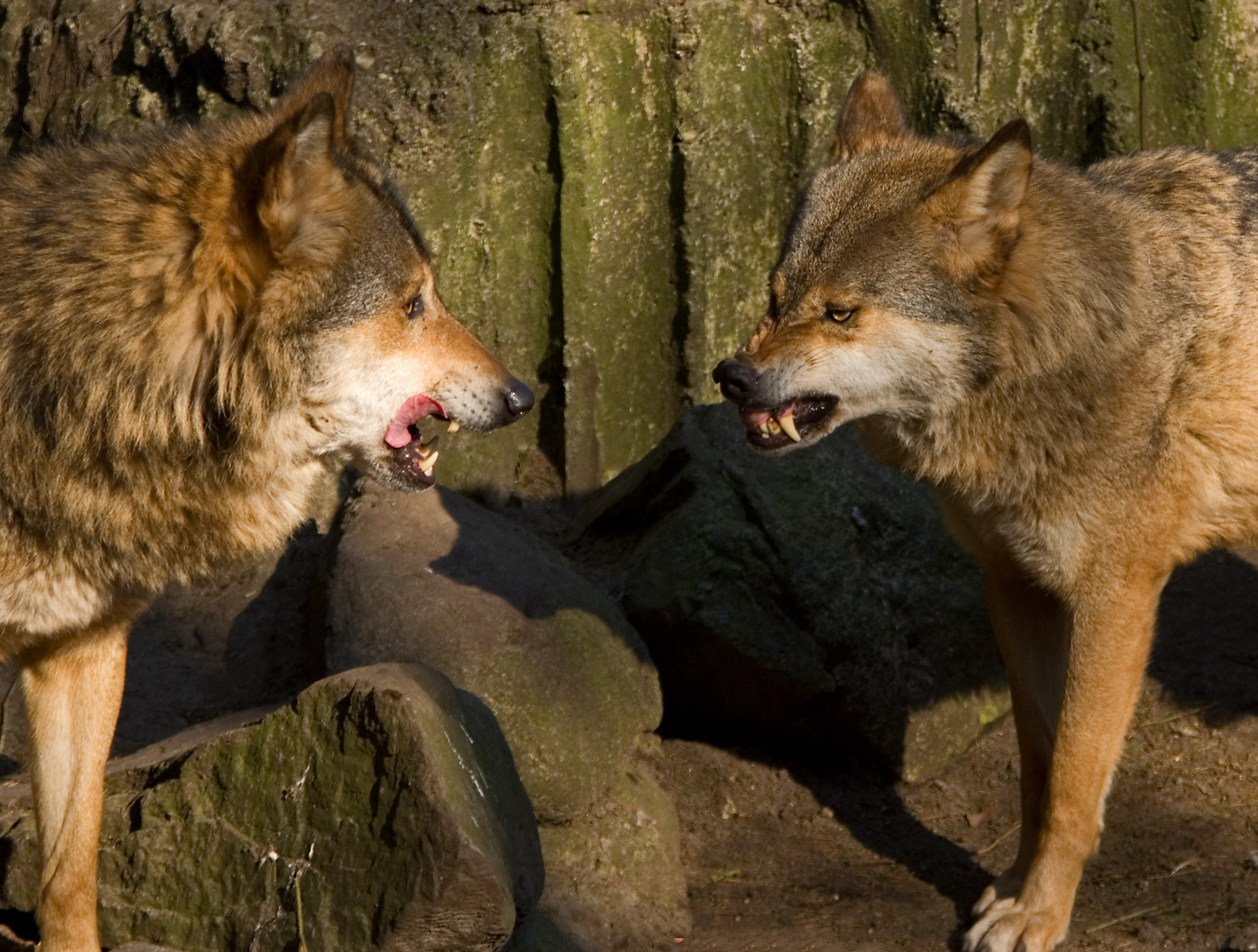 two wolves arguing